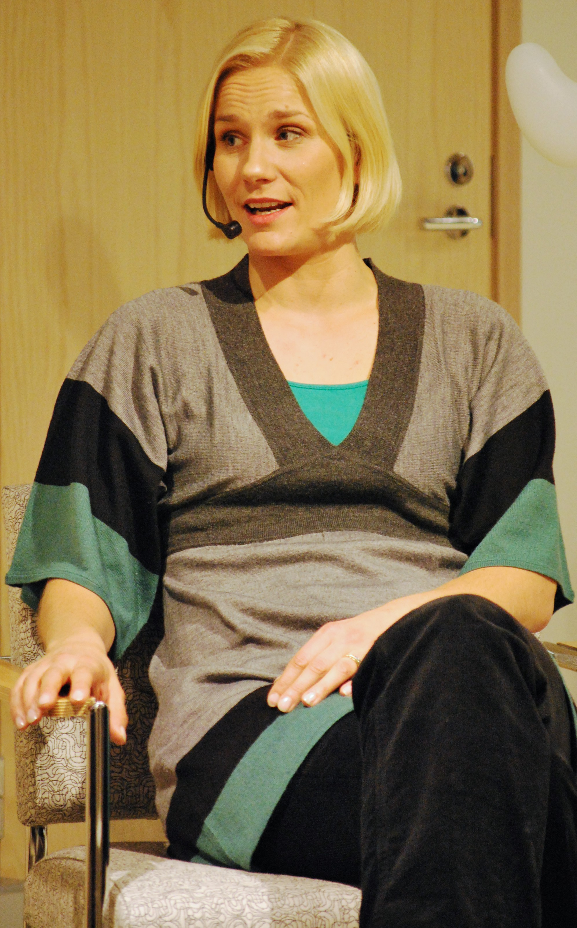 Laura Malmivaara, Finnish actress, Helsinki, October 2008.